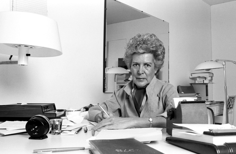 Sylvia Porter photographed in her home, 1978 ©Lynn Gilbert